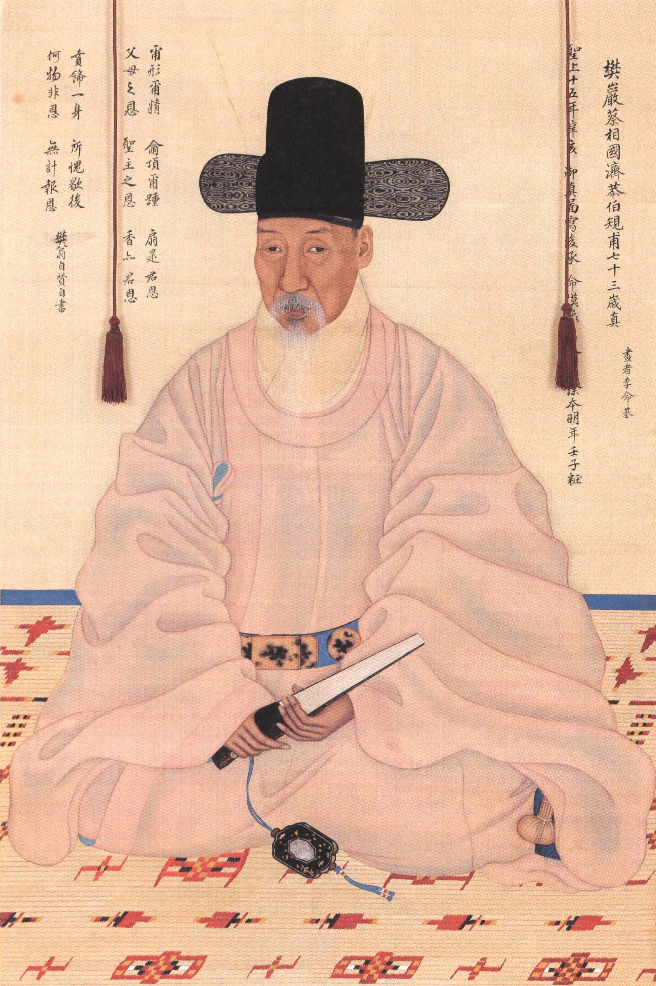 Chae Je-gong